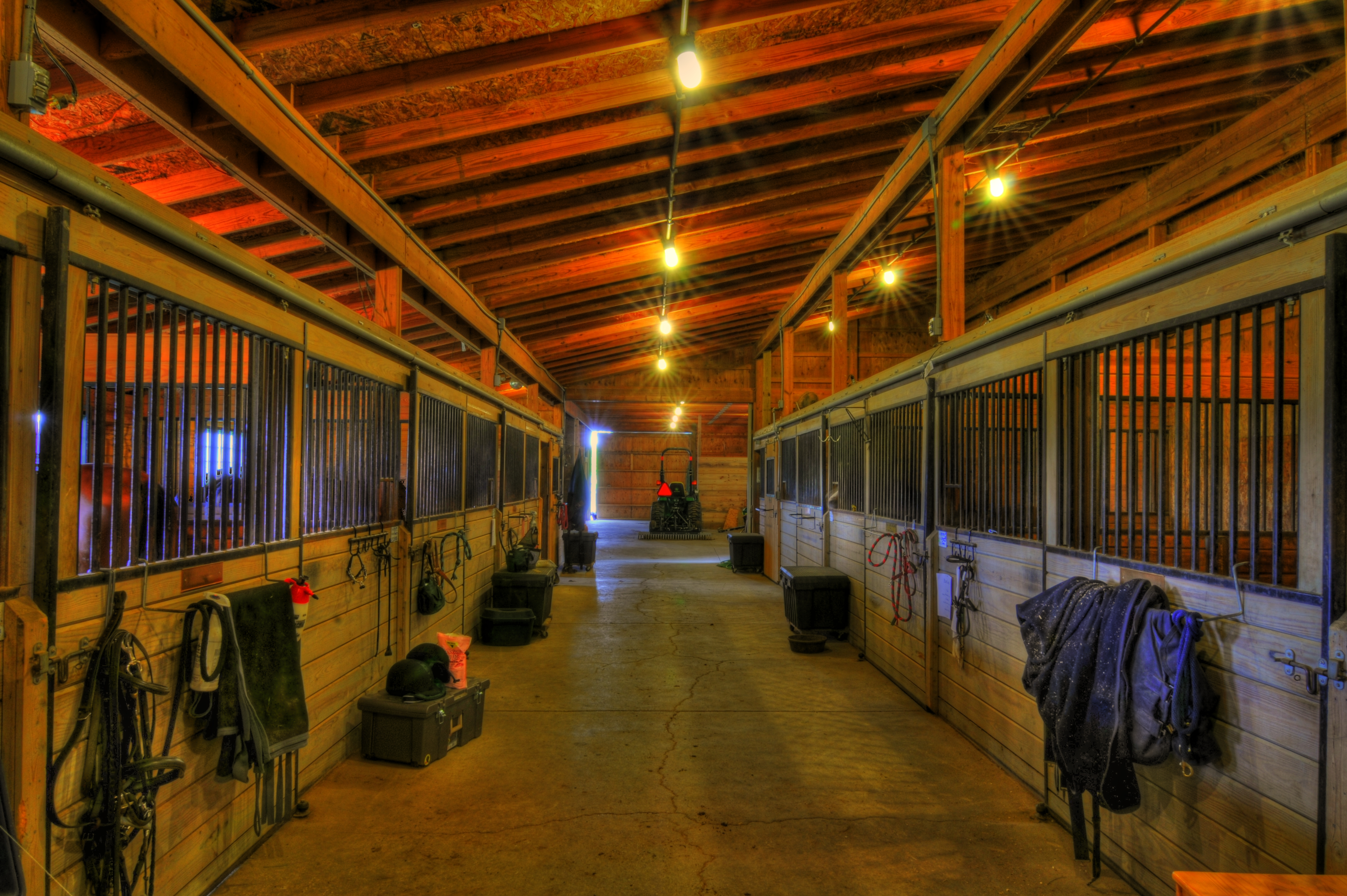 Highmark Farm Open House - Dublin OH. Inside the barn. HDR from 5 shots